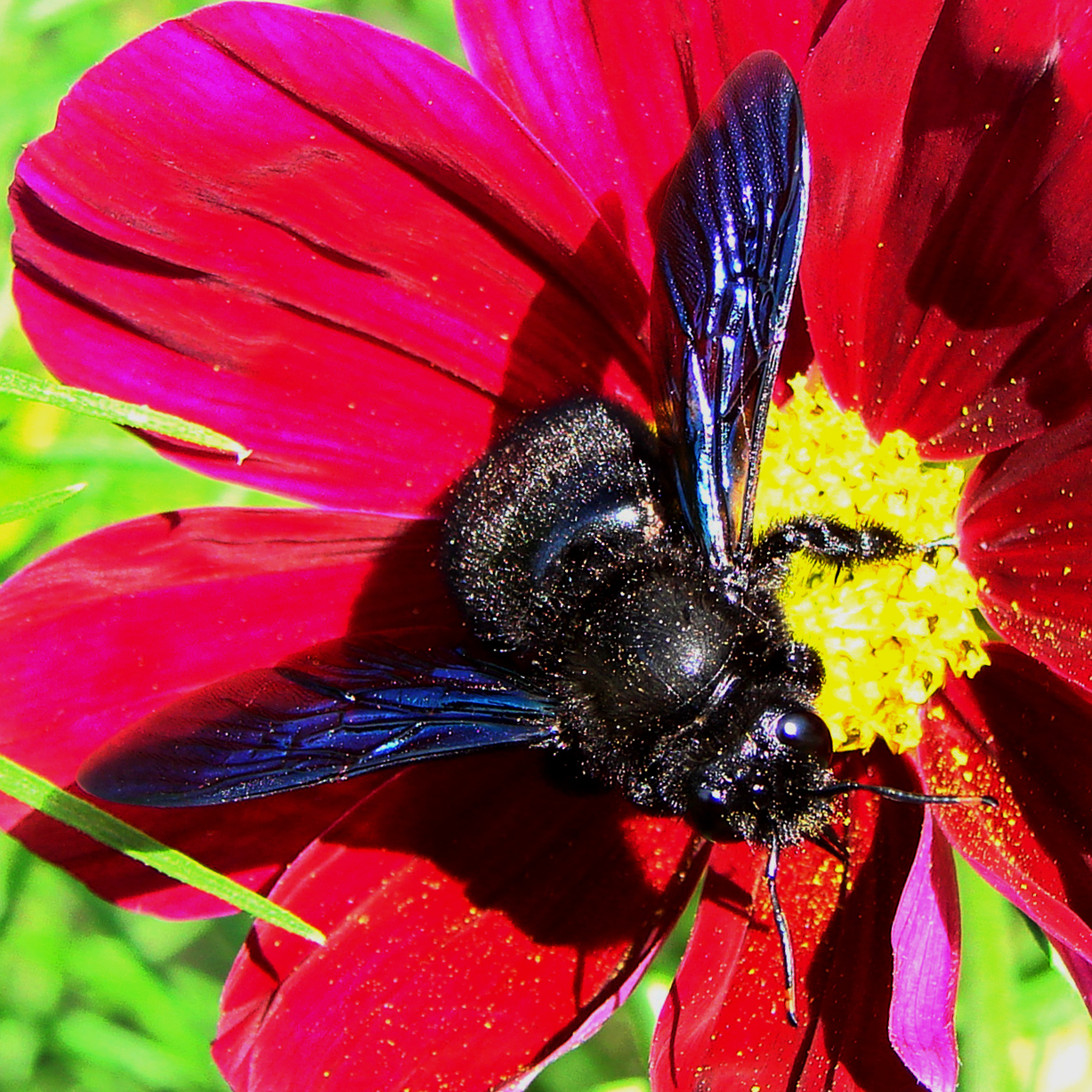 male Xylocopa violacea on a cosmos.